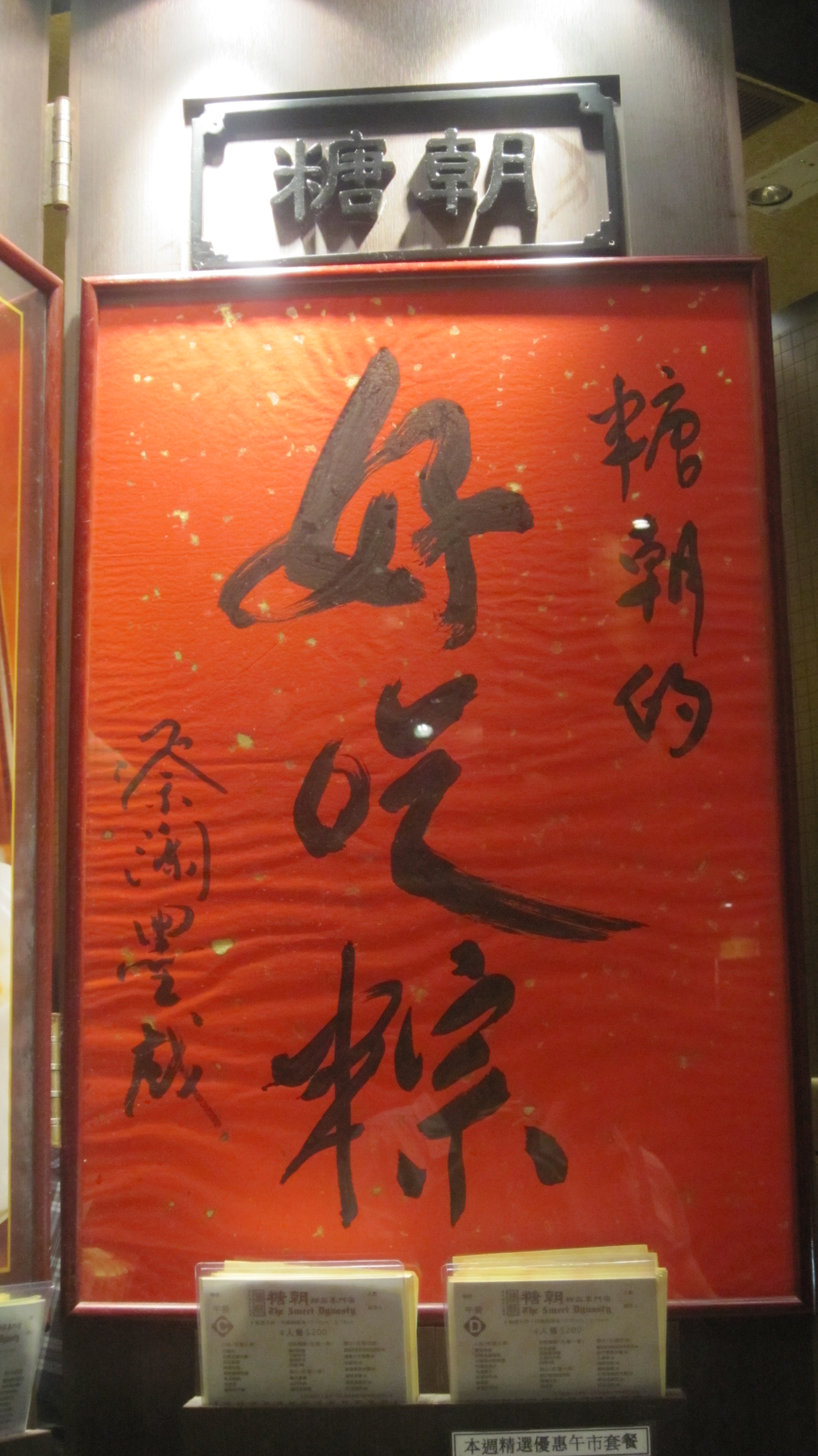 writting by Chua Lam